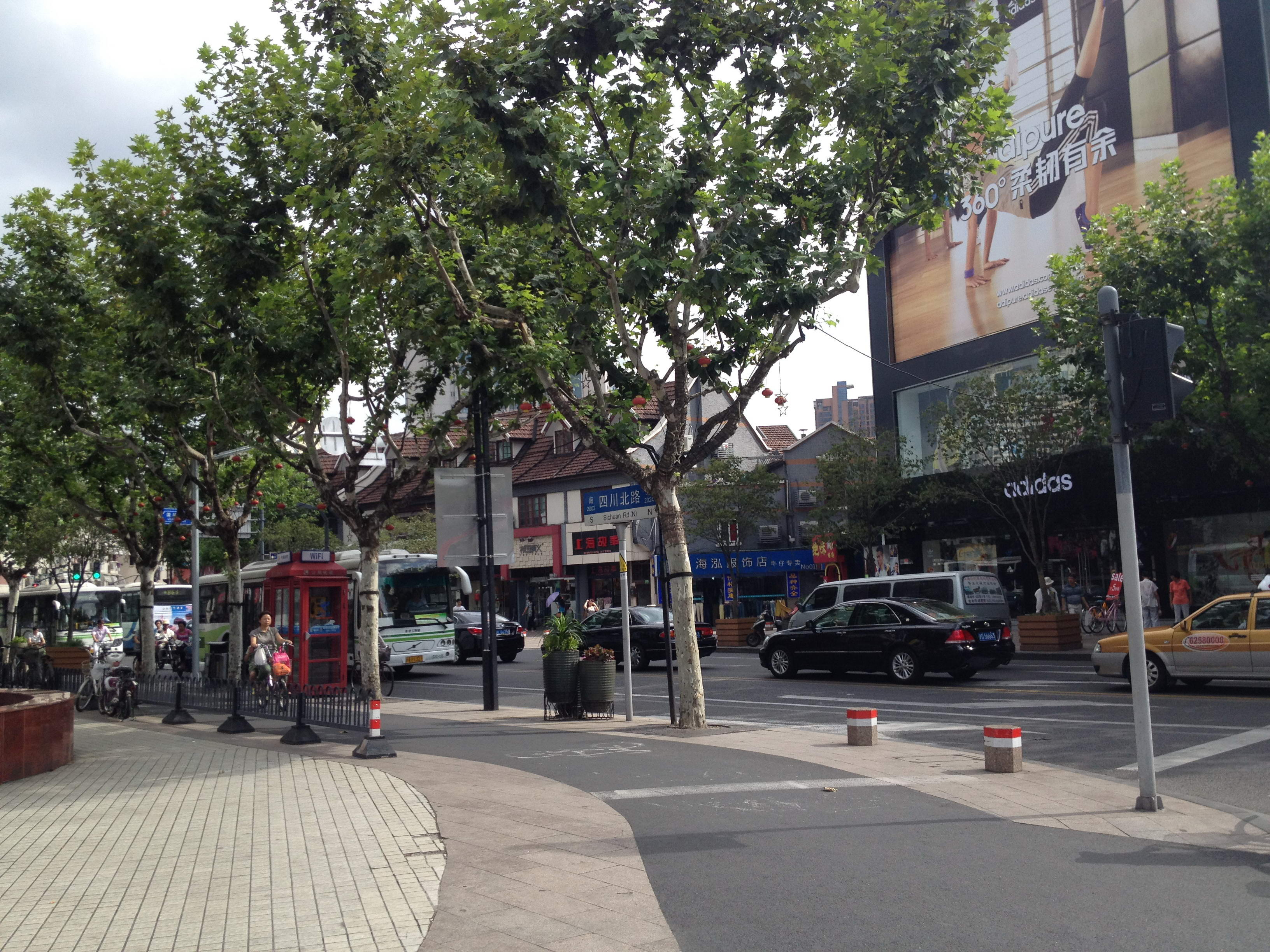 North Sichuan Road Shanghai 8-6-12